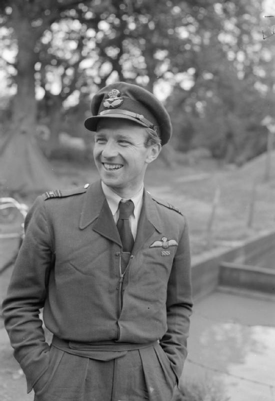 Royal Air Force Fighter Command, 1939-1945. Squadron Leader P B "Laddie" Lucas, when Commanding Officer of No. 616 Squadron RAF at Ibsley, Hampshire. A former international golfer and journalist, Lucas opened his victory score with No. 249 Squadron RAF in Malta, a unit which he later commanded. He commanded 616 Squadron from April to July 1943, following which he led the Coltishall Wing. After a further rest from operations he commanded No. 613 Squadron RAF, flying night-intruder sorties until the end of the war.